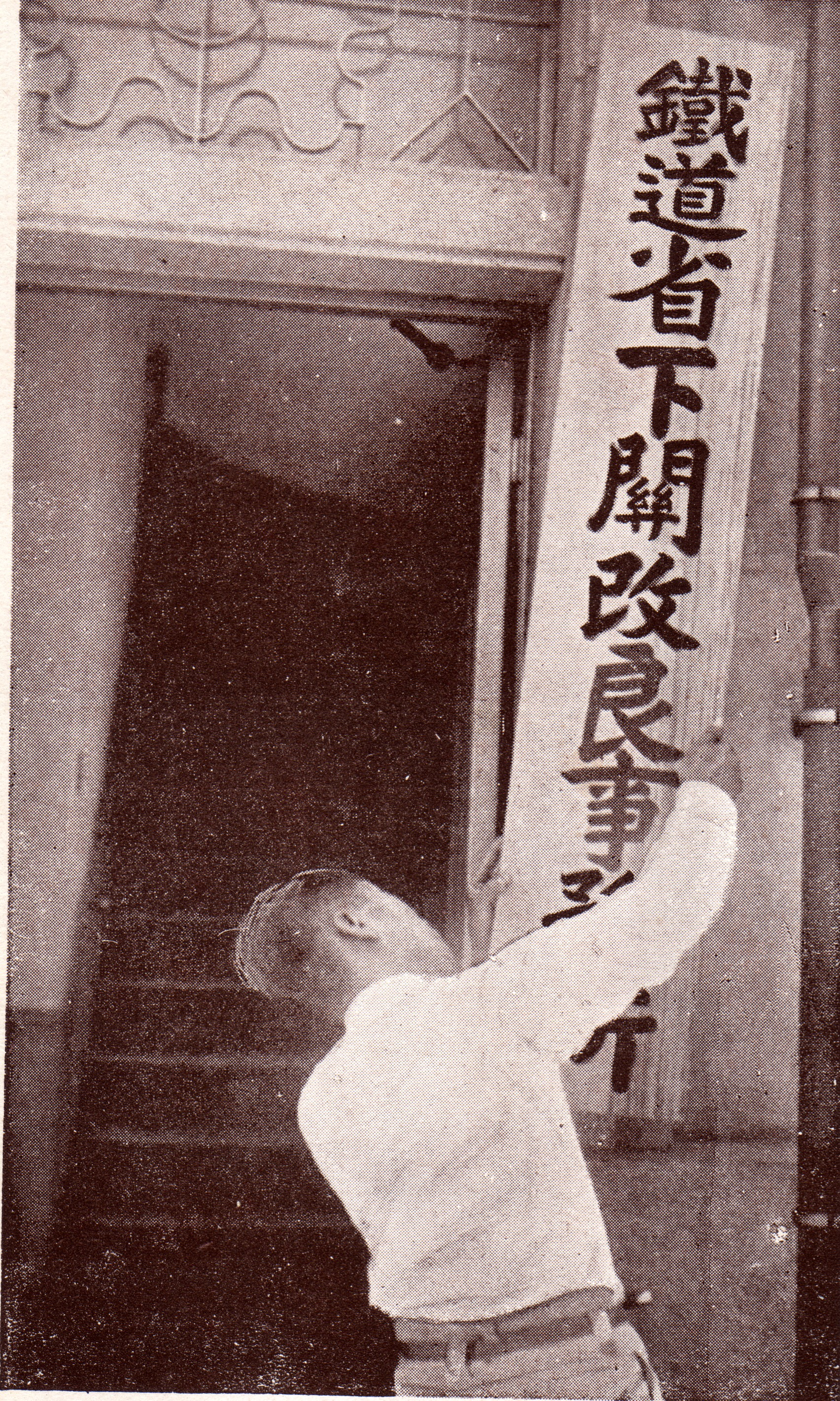 Establishment of Shimonoseki improvement office of the ministry of railways, Japan.